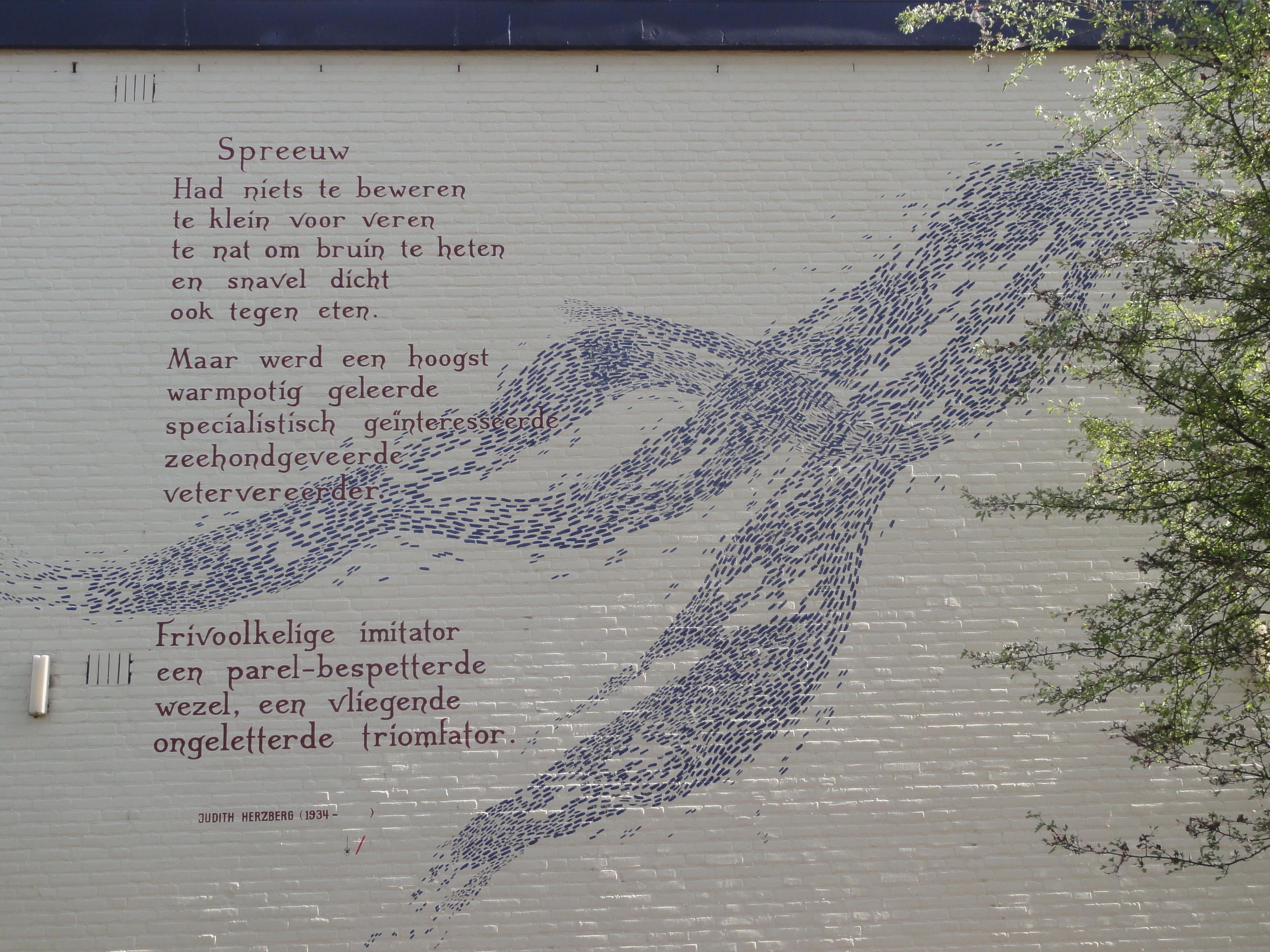 Wallpoem 'Sparrow' by Judith Herzberg, Boshuizerlaan 5 Leiden